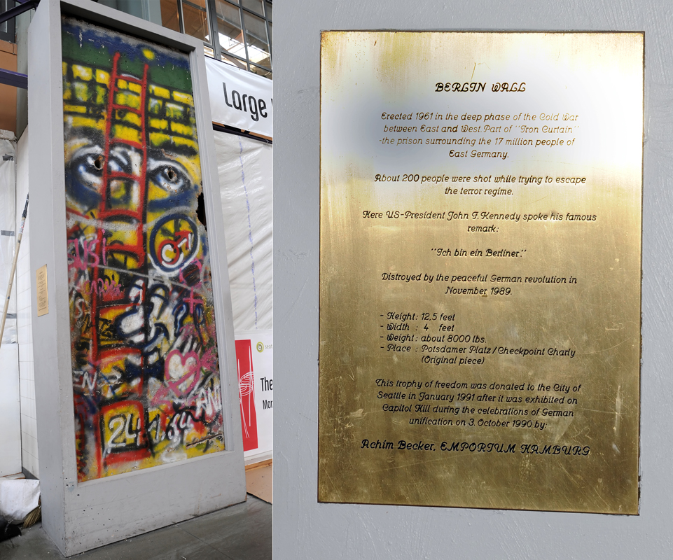 Section of the Berlin Wall and commemorative plaque at Center House at Seattle Center